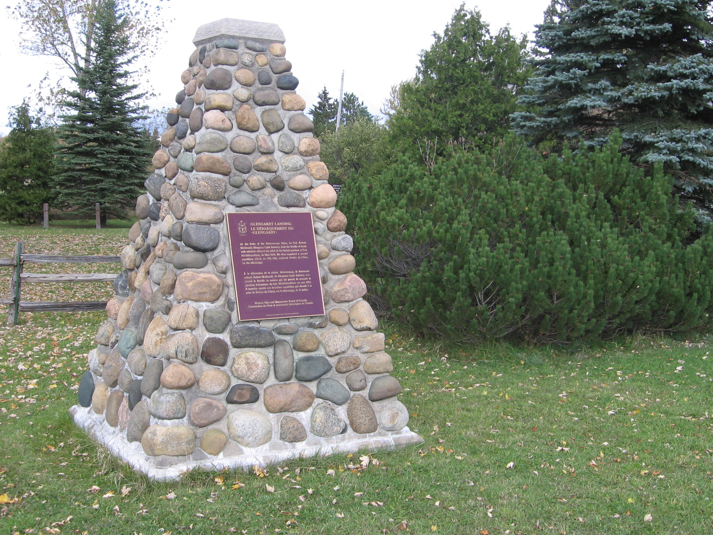 Stone cairn with a plaque marking the location of the Glengarry Landing National Historic Site of Canada in Edenvale, Ontario. The site is near the junction of the Nottawasaga River and Marl Creek, where in 1814 the Glengarry Light Infantry Fencibles, under the command of Lieutenant-Colonel Robert McDouall, constructed a flotilla of boats to relieve the British garrison at Fort Michilimackinac and to effect the subsequent capture of Prairie du Chien during the War of 1812.